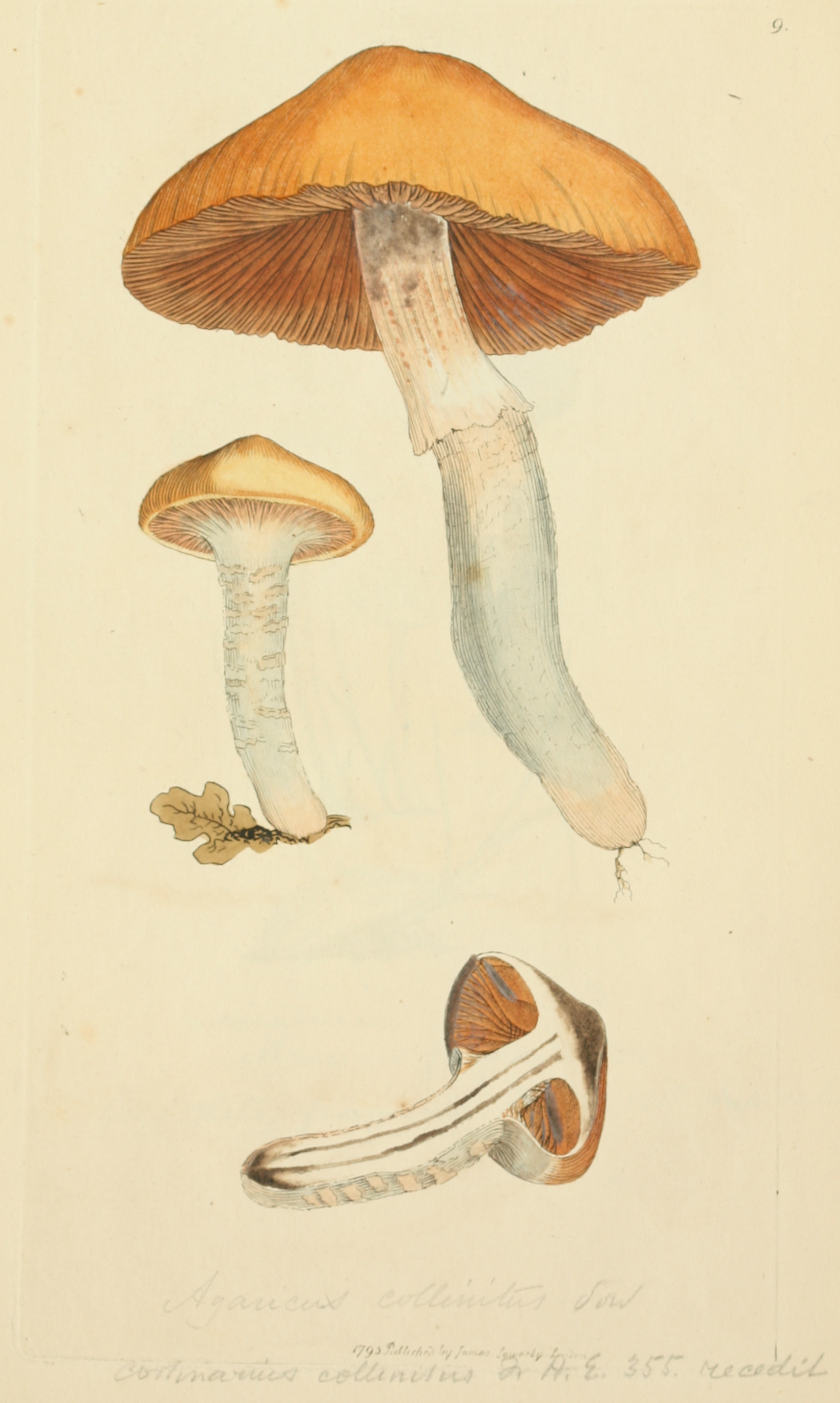 This is a plate from James Sowerby's Coloured Figures of English Fungi or Mushrooms.